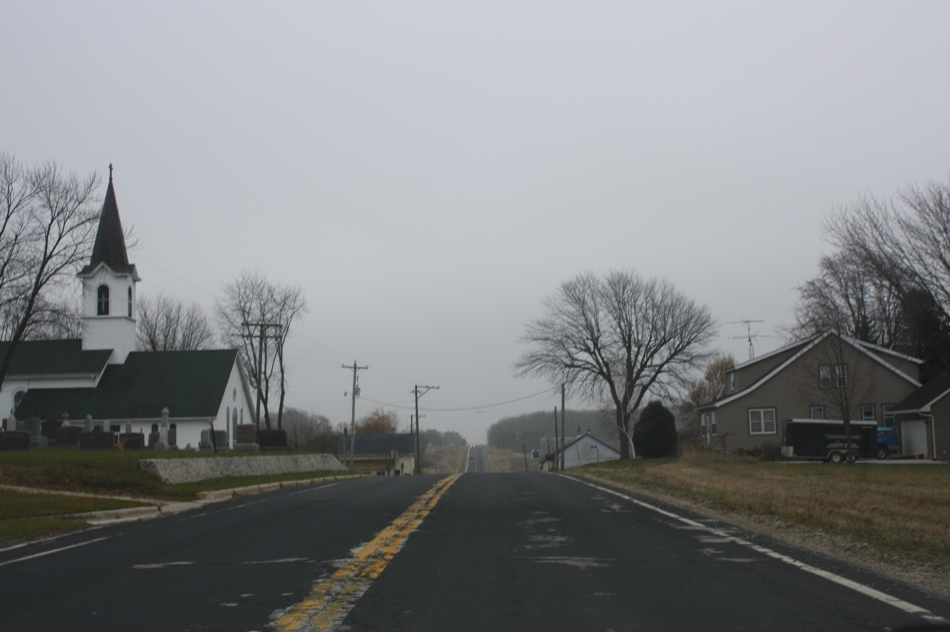 Looking east at Louis Corners, Wisconsin on the former route of Wisconsin Highway 149.